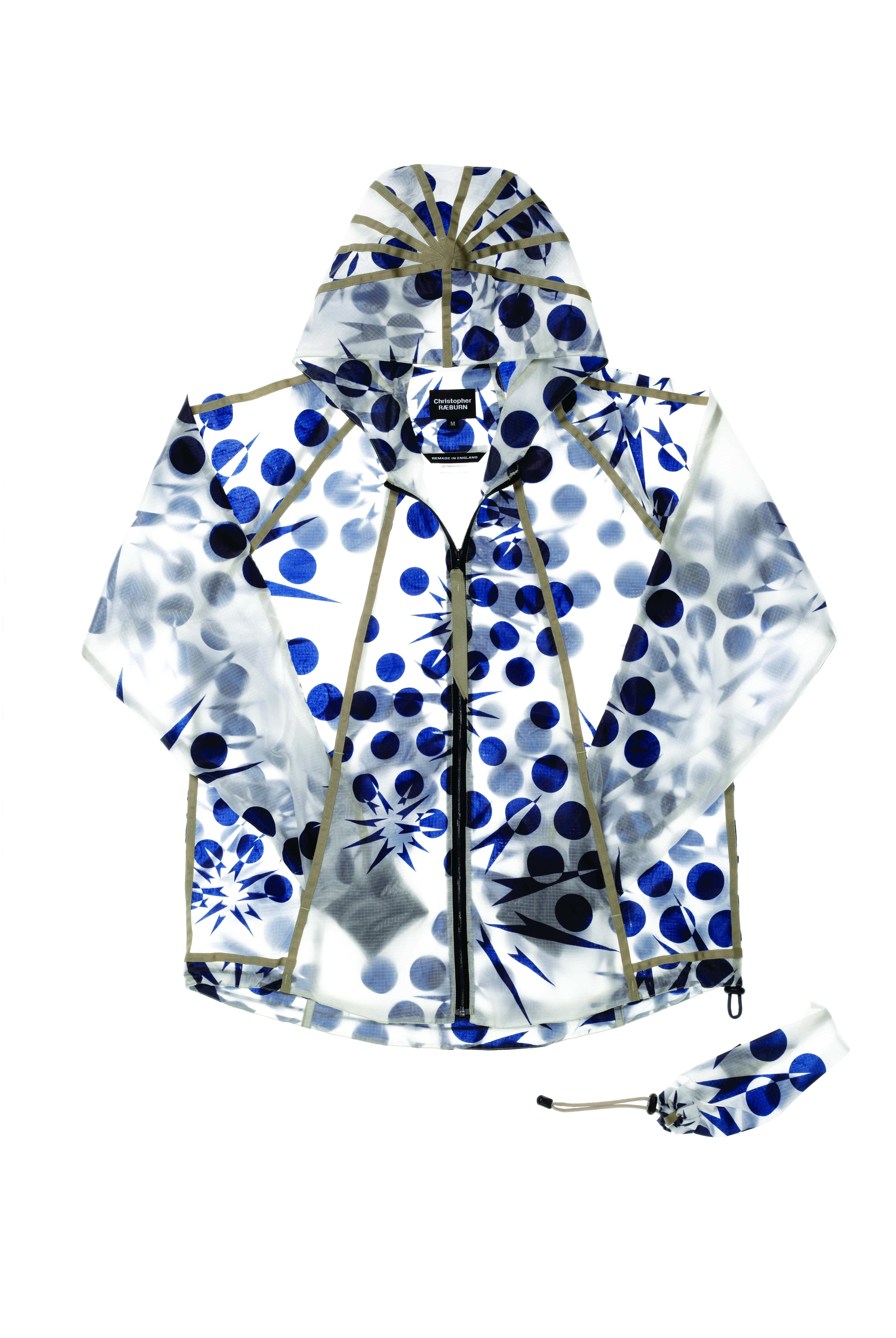 Iconic Ræburn hooded jacket remade from parachute